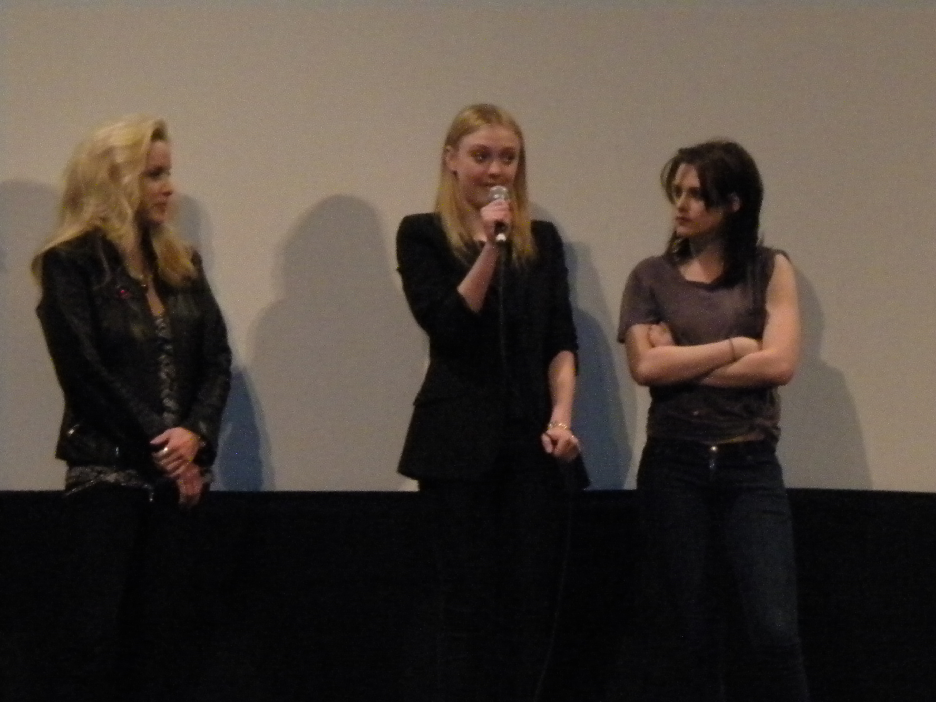 At SXSW 2010 screening of "The Runaways"